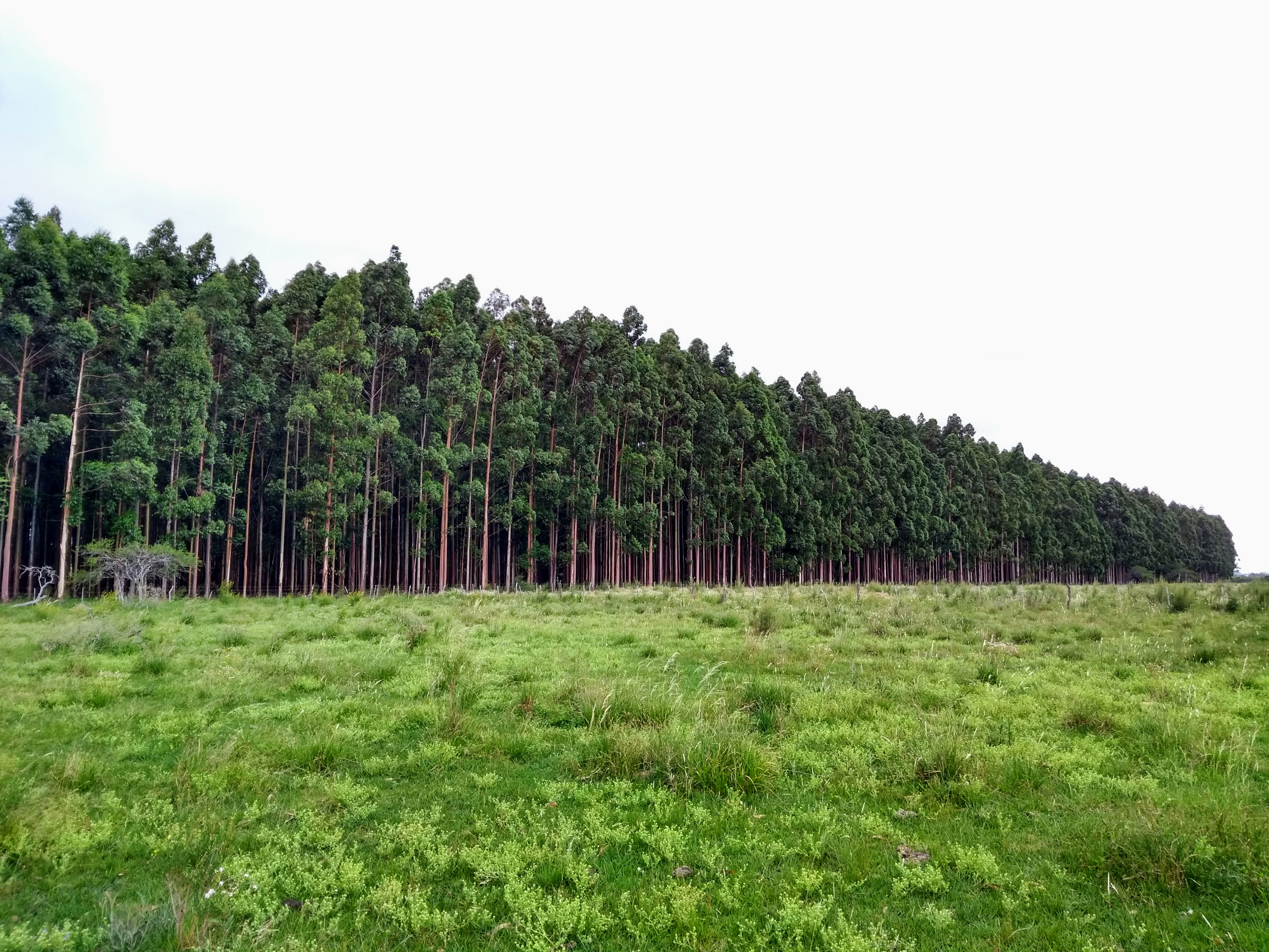 A forest plantation of eucalyptus (Eucalyptus) a few kilometers from Villa Elisa, Province of Entre Ríos.